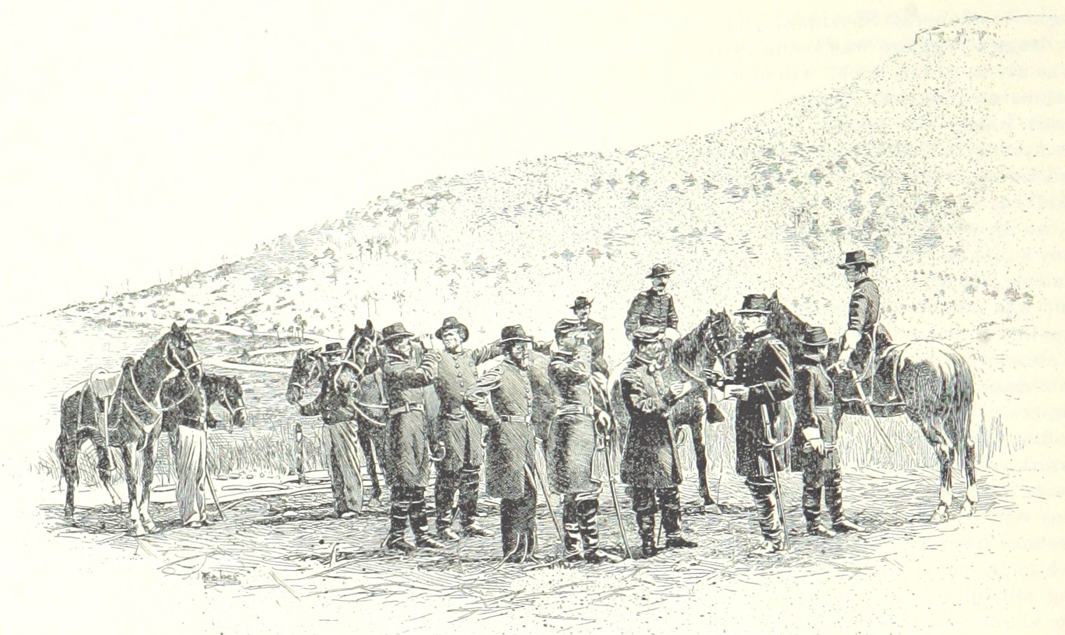 General Joseph Hooker and his staff on a hill north of Lookout Creek, from which Hooker directed the Battle of Lookout Mountain.